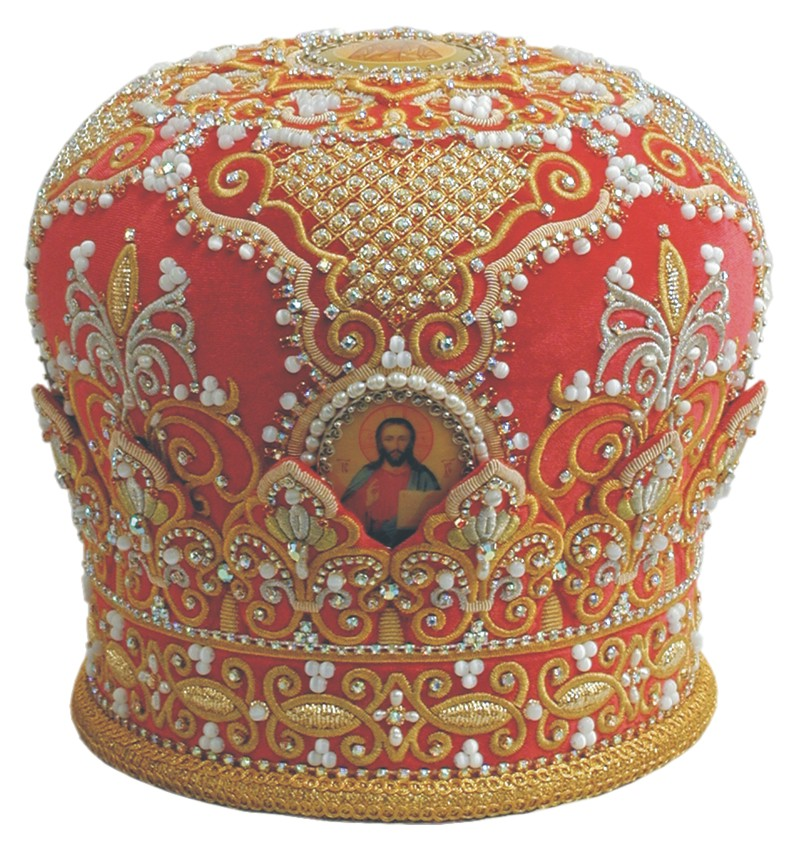 Oleg Blazhko's gold embroidery